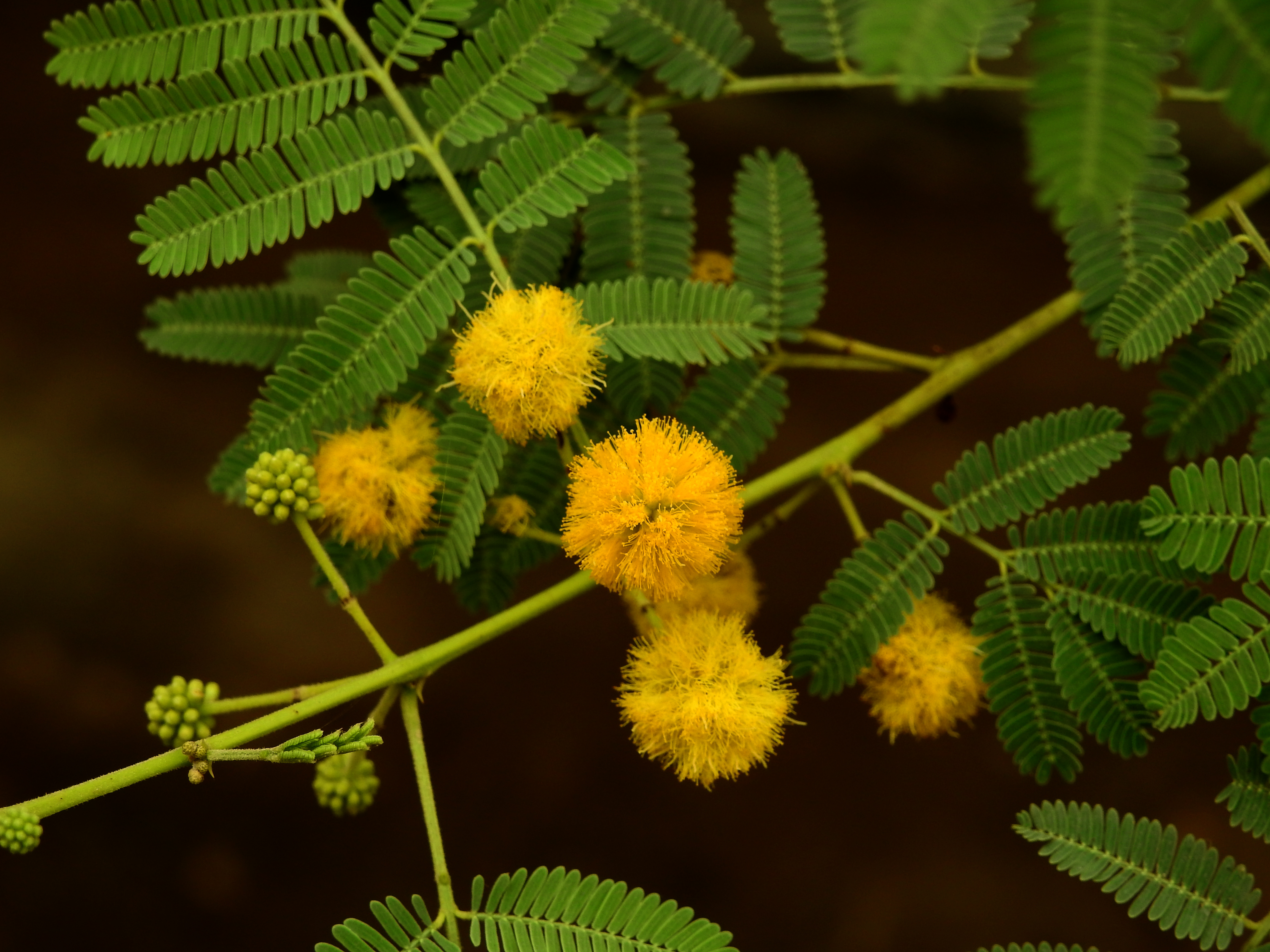 Vachellia nilotica is a tree 5–20 m high with a dense spheric crown